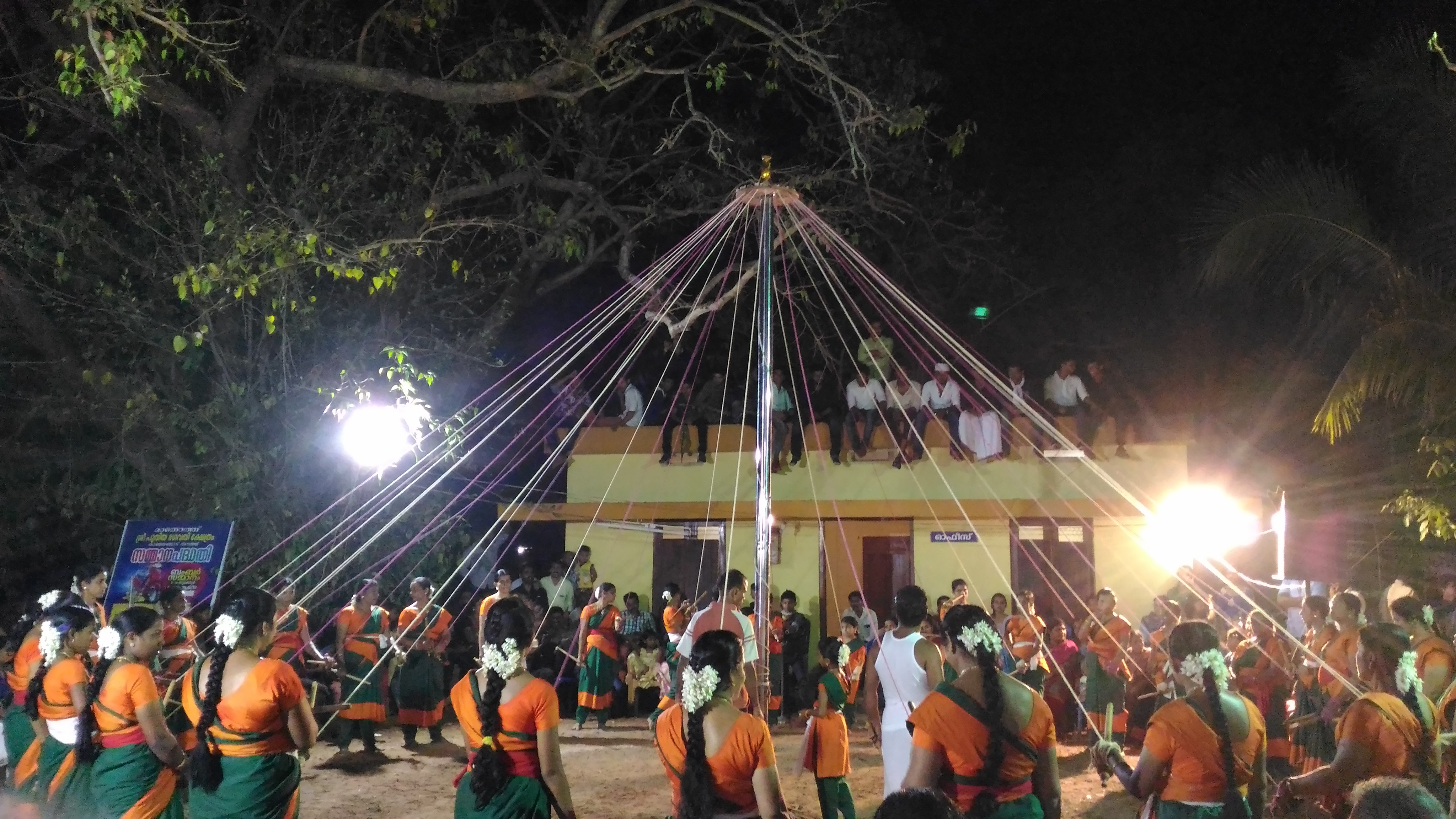 A folk art form of Payyannur Kolkali